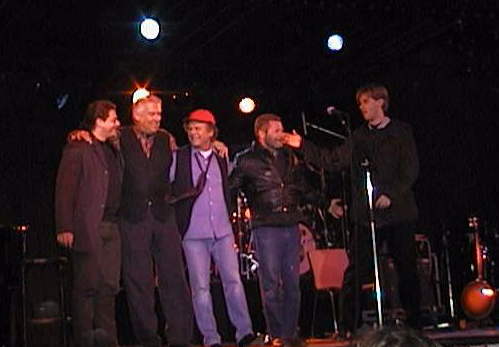 Art Garfunkel (center) with his band after the show on June 4 1998 at Liseberg Fairground in Gothenburg Sweden, cropped.